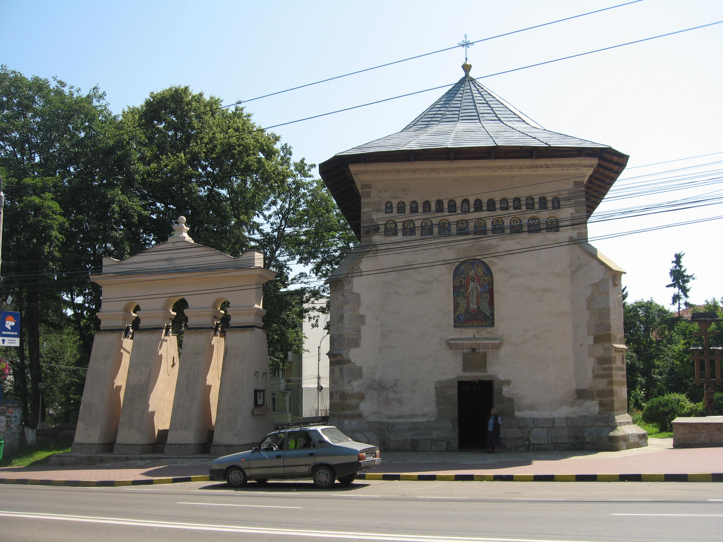 Resurrection Church in Suceava.